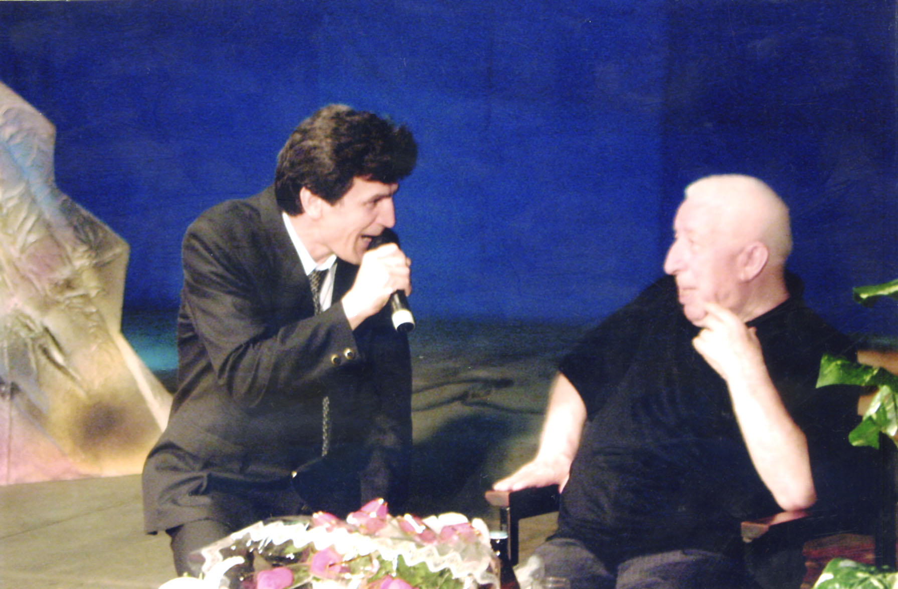 R. Gamzatov evening